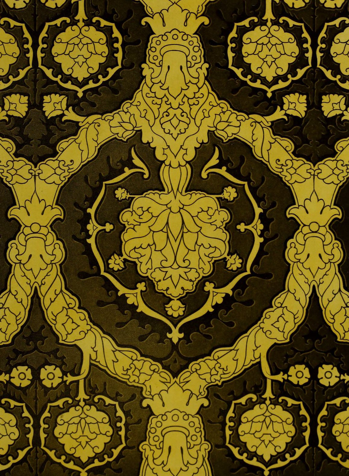 [Detail] The encyclopædia of ornament (1842) In the Mary Ann Beinecke Decorative Art Collection. Sterling and Francine Clark Art Institute Library.